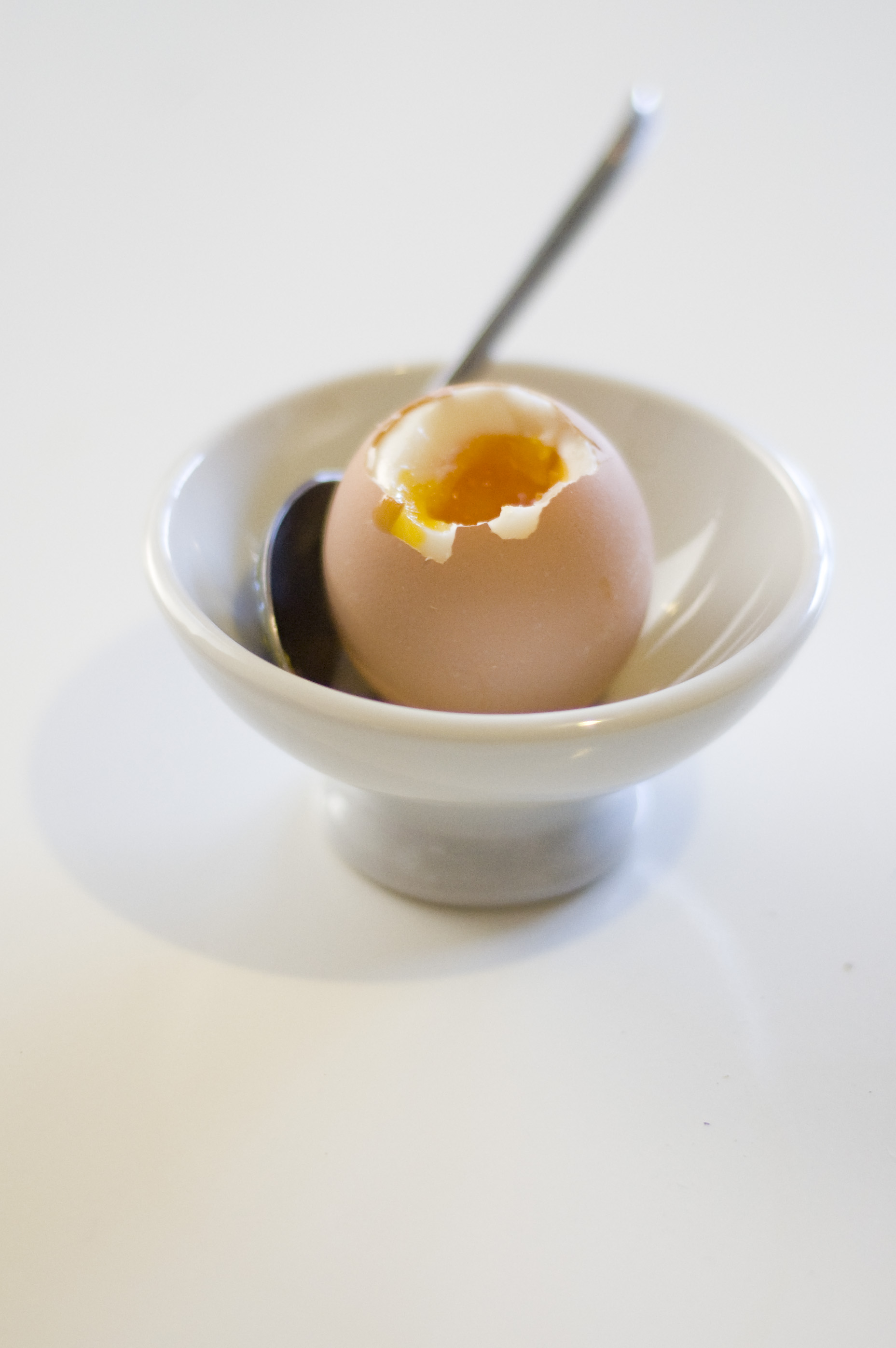 A boiled egg